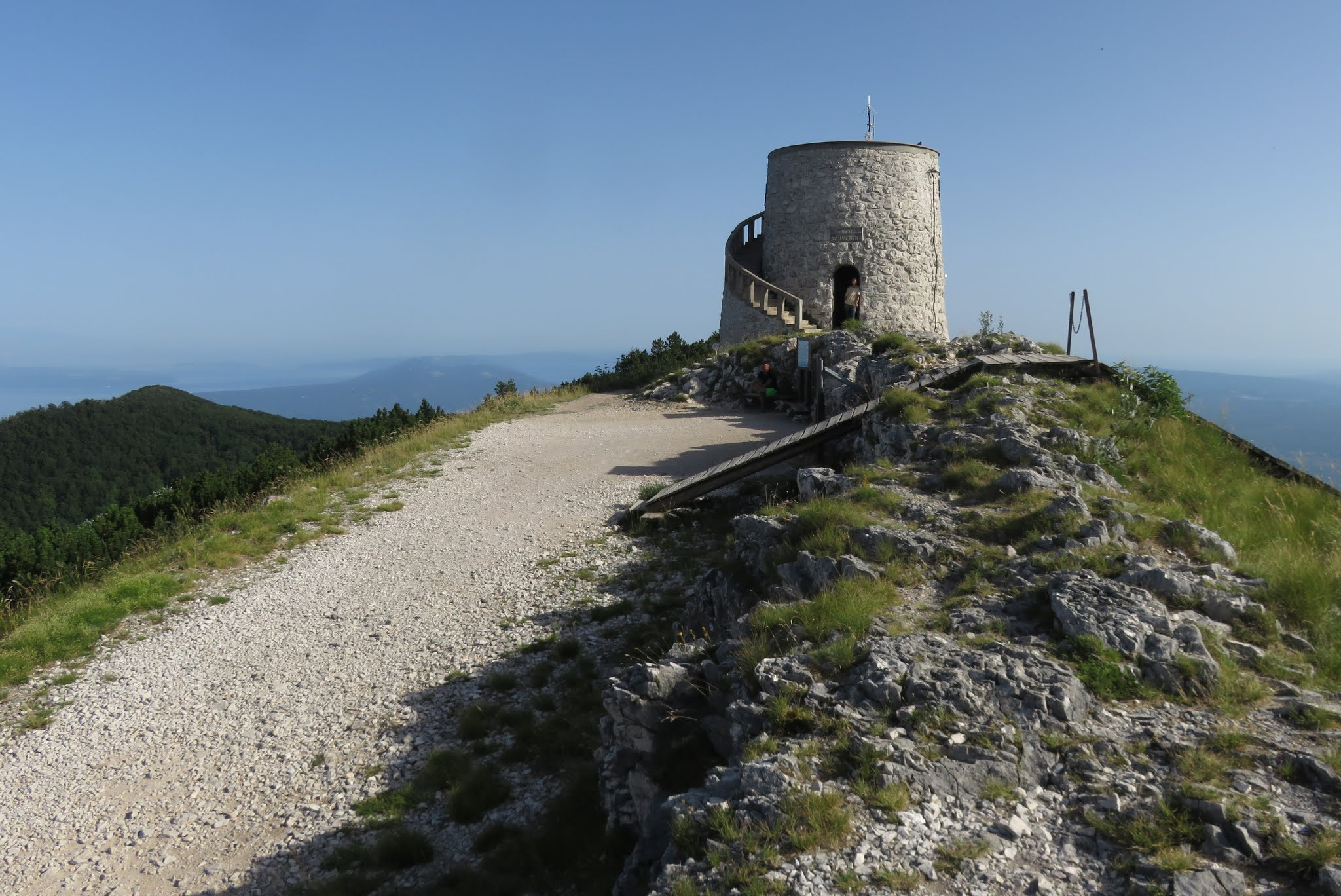 Vojak (mountain)